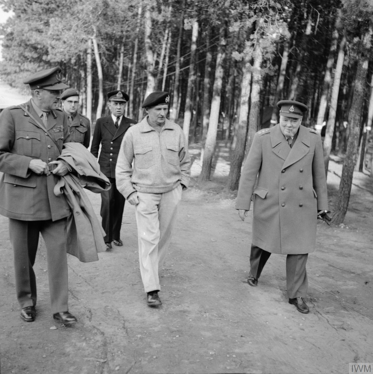 The British Army in North-west Europe 1944-45 Winston Churchill with Field Marshal Sir Bernard Montgomery and Field Marshal Sir Alan Brooke during the Prime Minister's tour of troops taking part in the Rhine crossing, 25 March 1945.